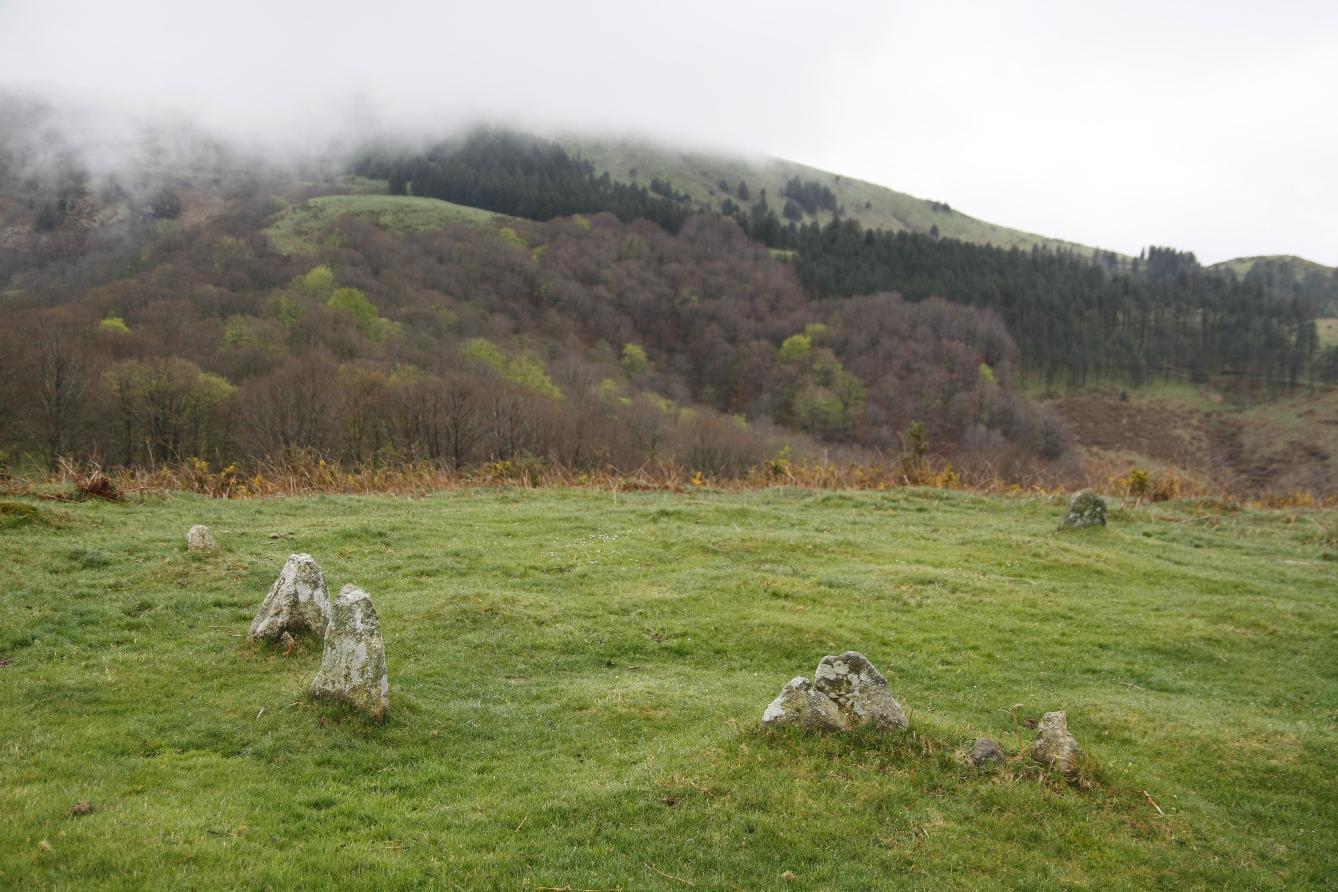 Basate cromlech